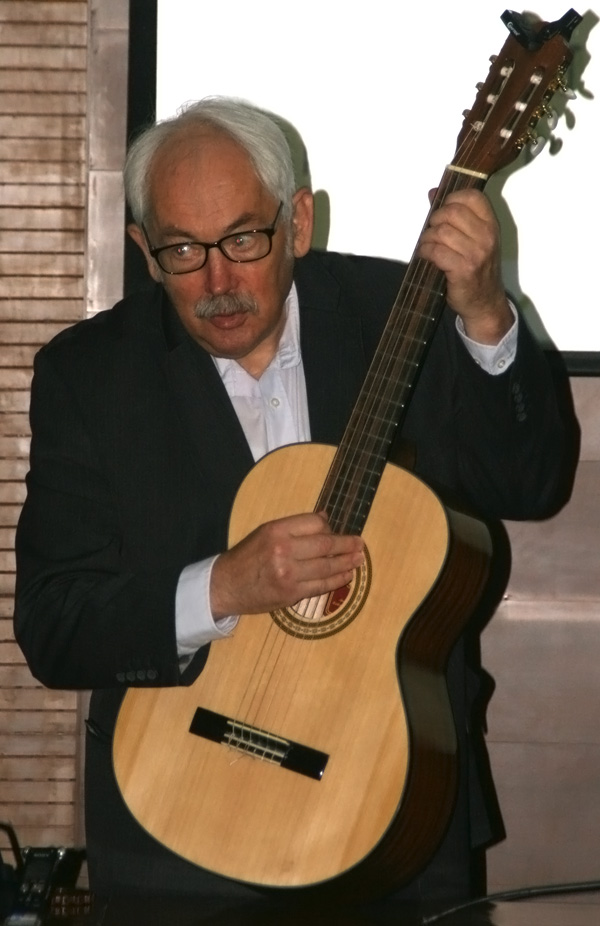 Peter Grünberg played guitar during his speech Fourier theorem: from harmony in music to speech recognition when he visited School of Physics, Shandong University.